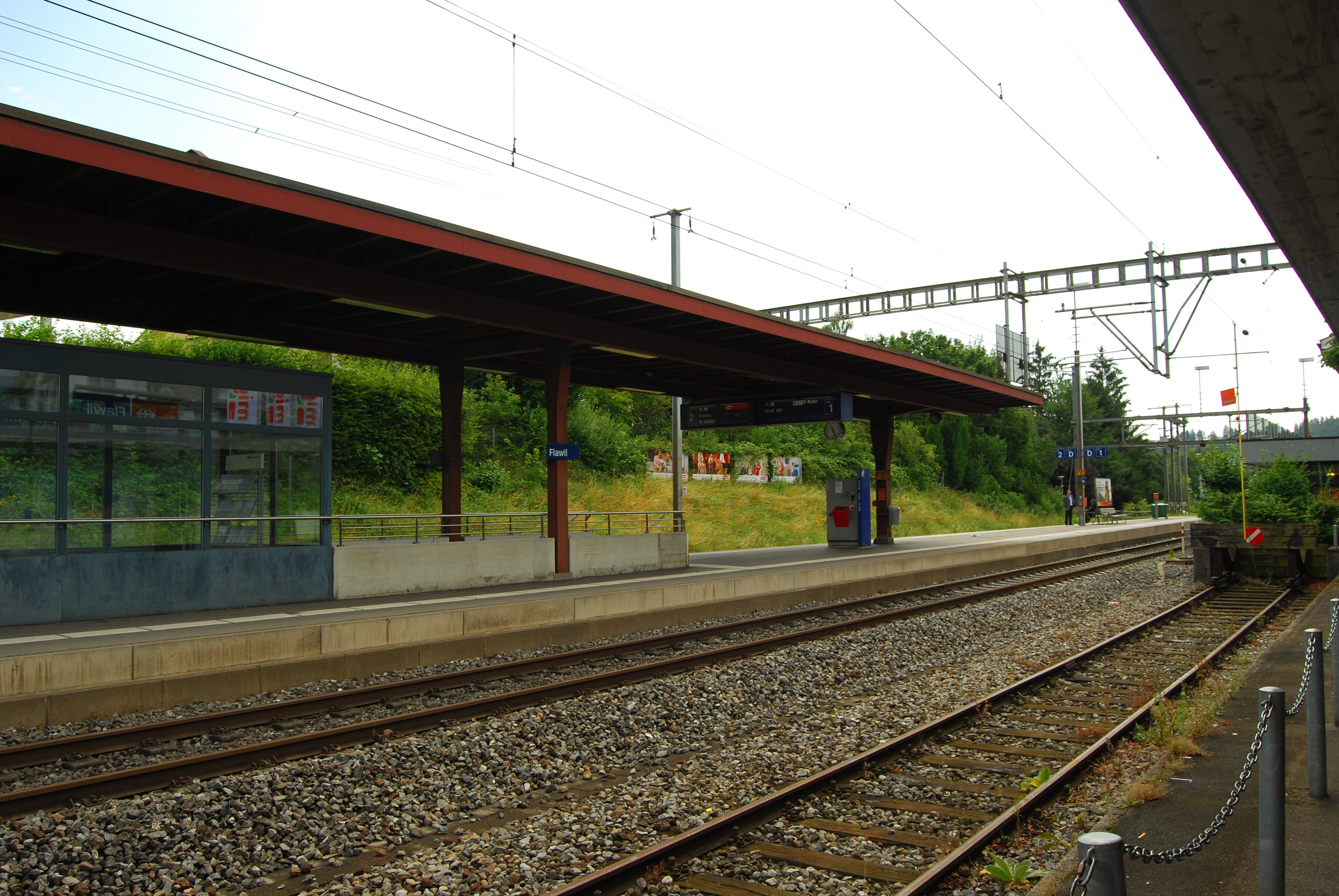 Train station of Flawil, canton of St. Gallen, Switzerland